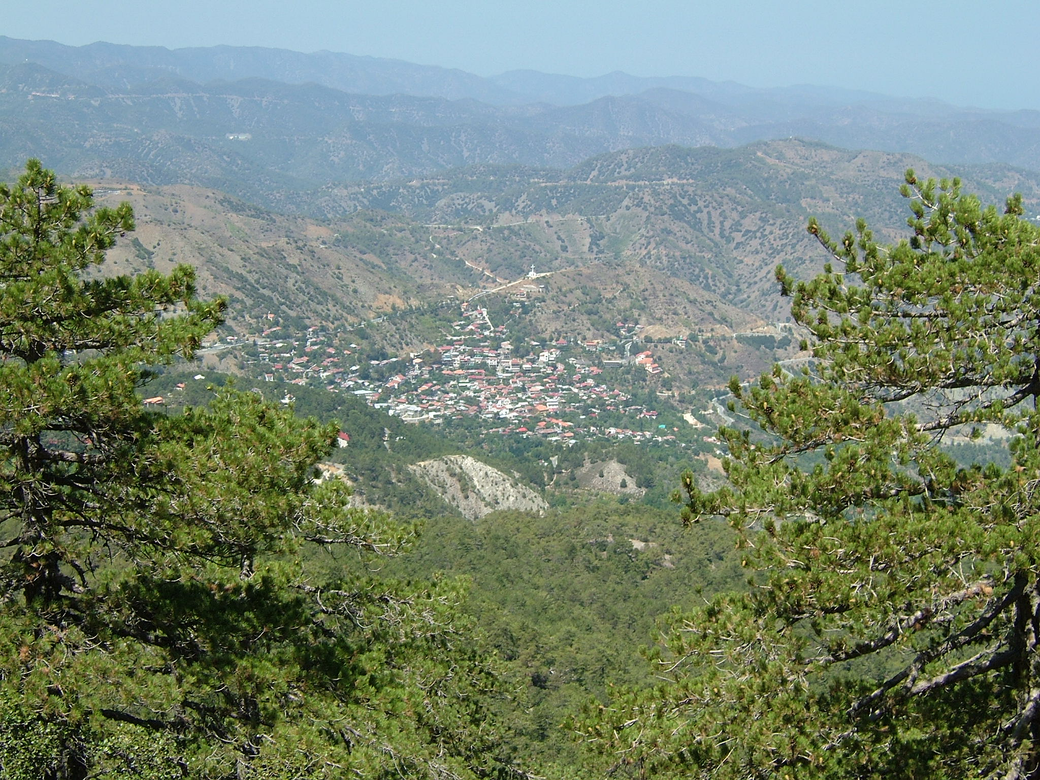 Mountain village Pedoula in Troodos, Cyprus